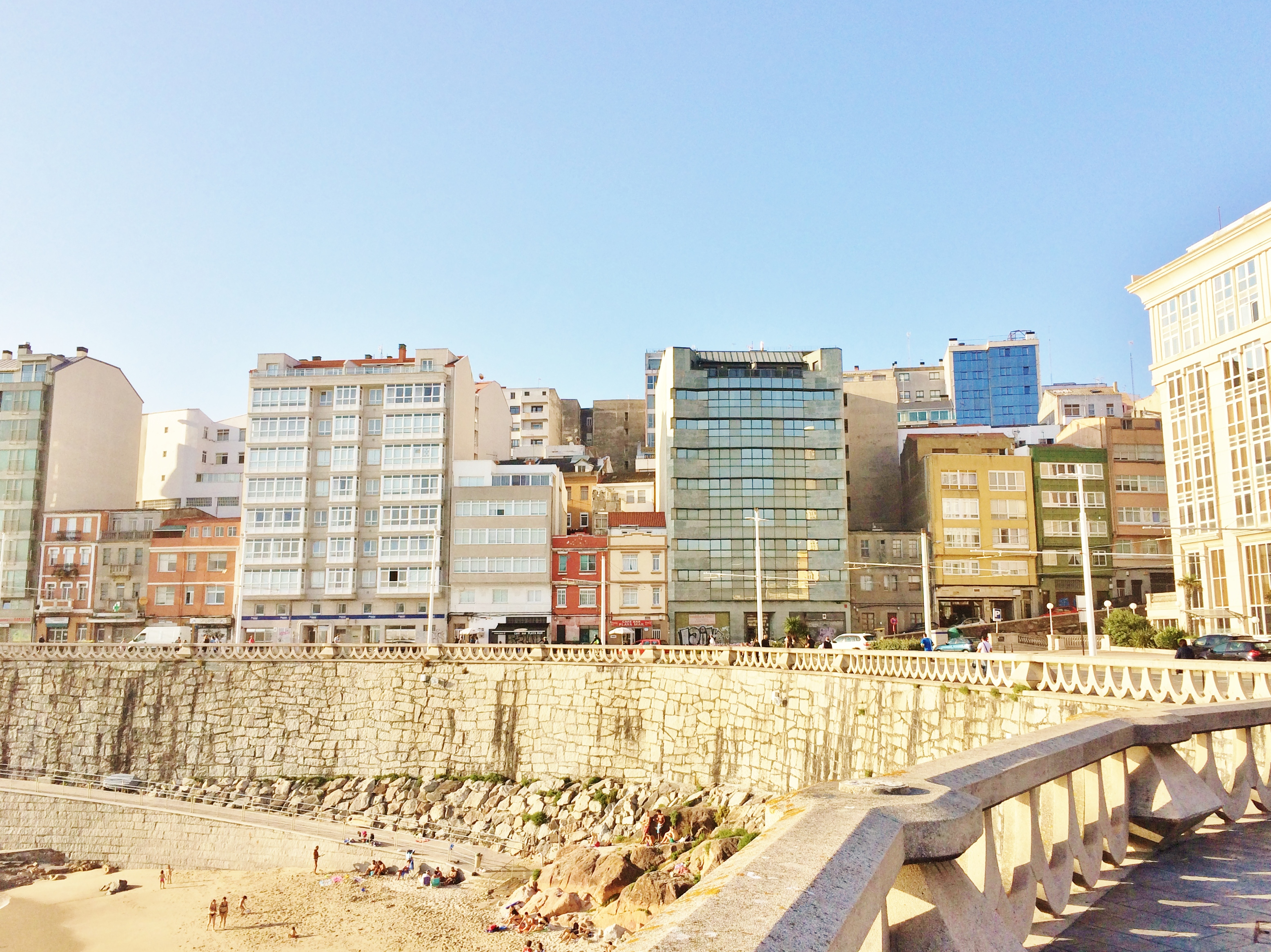 Matadoiro beach in Monte Alto, A Coruña